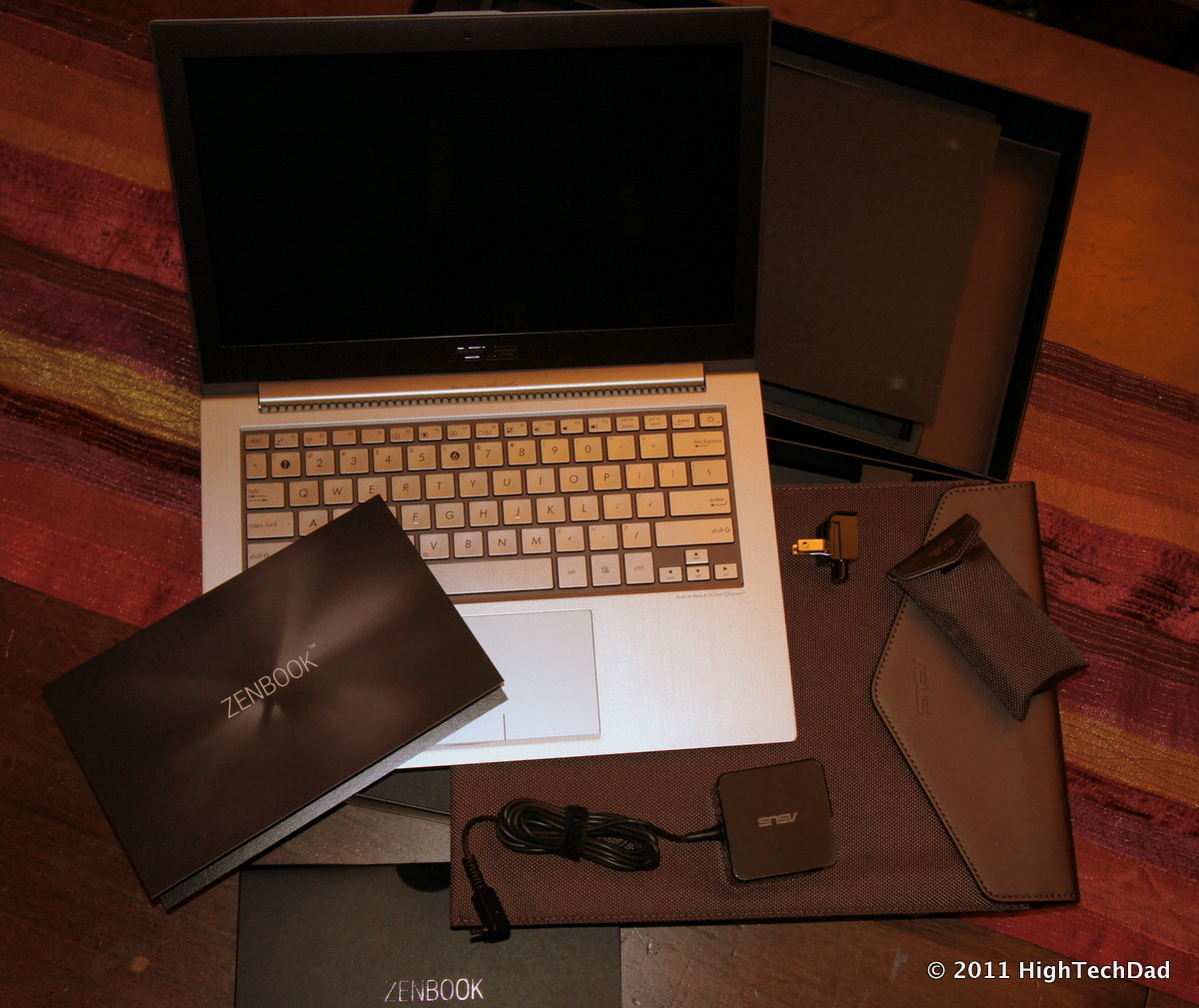 First generation Zenbook UX31E with its accessories